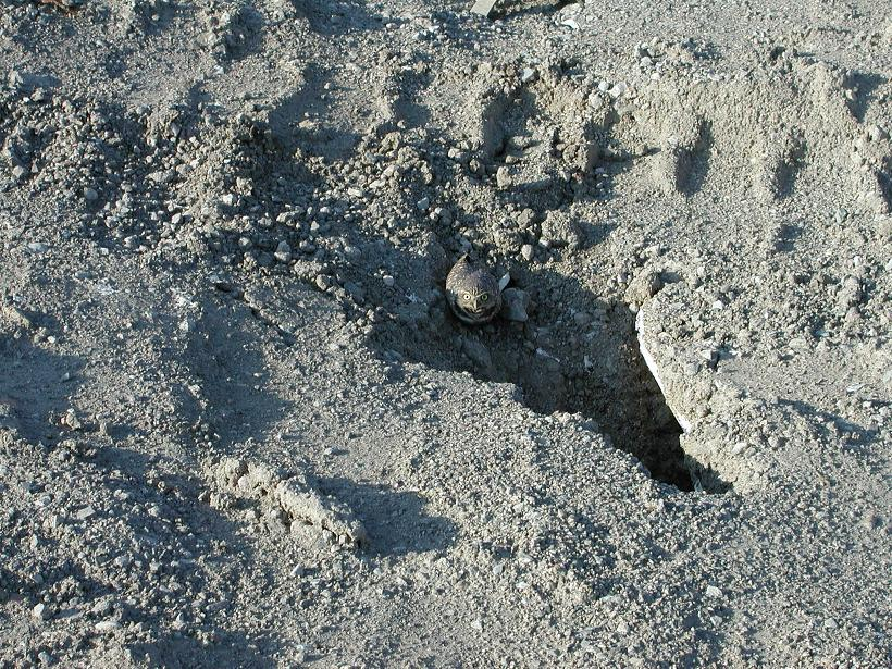 A burrowing owl makes a home out of a piece of buried pipe. Photo by User:Mr Snrub.